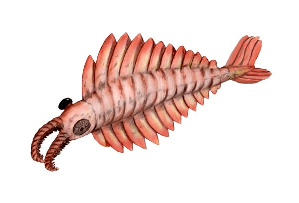 Anomalocaris canadensis, the top predator from the middle Cambrian Burgess Shale of British Columbia, pencil drawing, digital coloring.